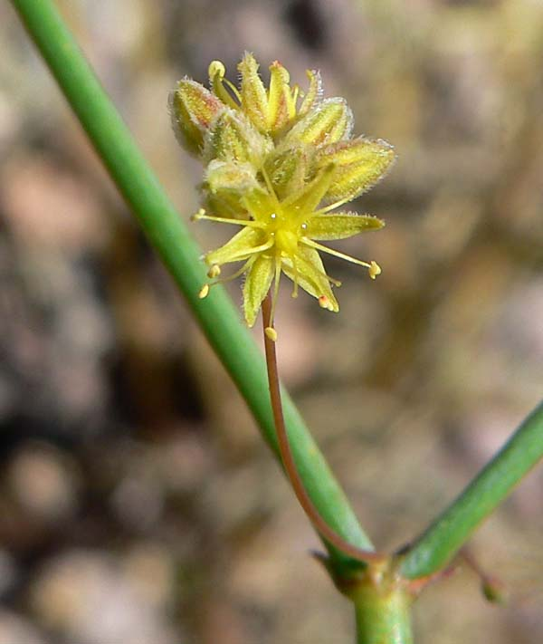 Photo of Eriogonum inflatum (desert trumpet) flower in Nelson Canyon, Nevada